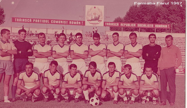 Farul Constanța 1967-1968 Divizia A season.